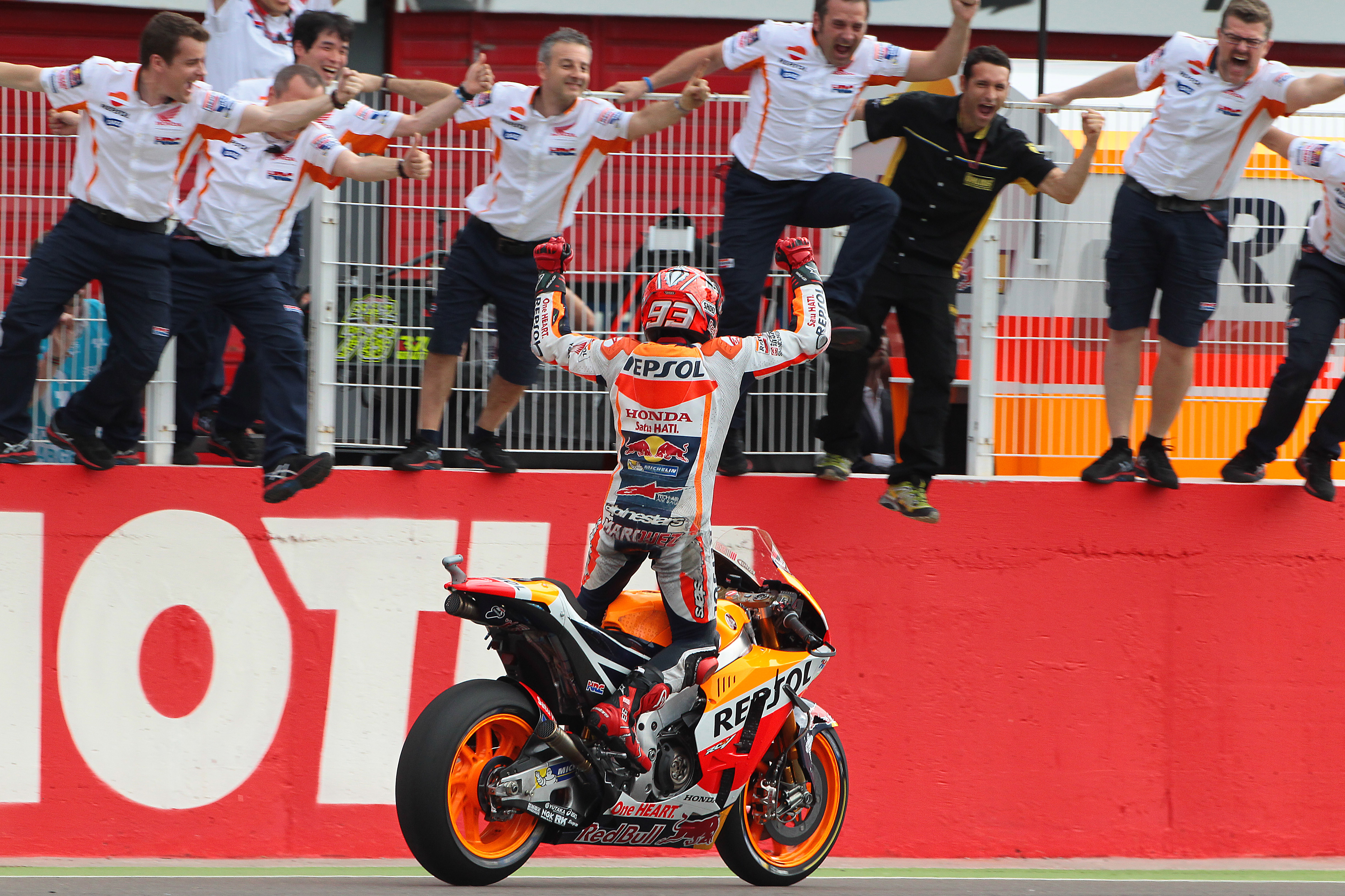 Marc Márquez, sitting on his Repsol Honda and celebrating his first victory of the season with his team at the 2016 Argentine Grand Prix.